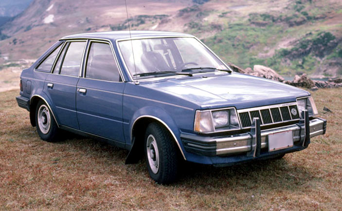 Photo of 1982 Mercury Lynx taken in Montana in 1988.